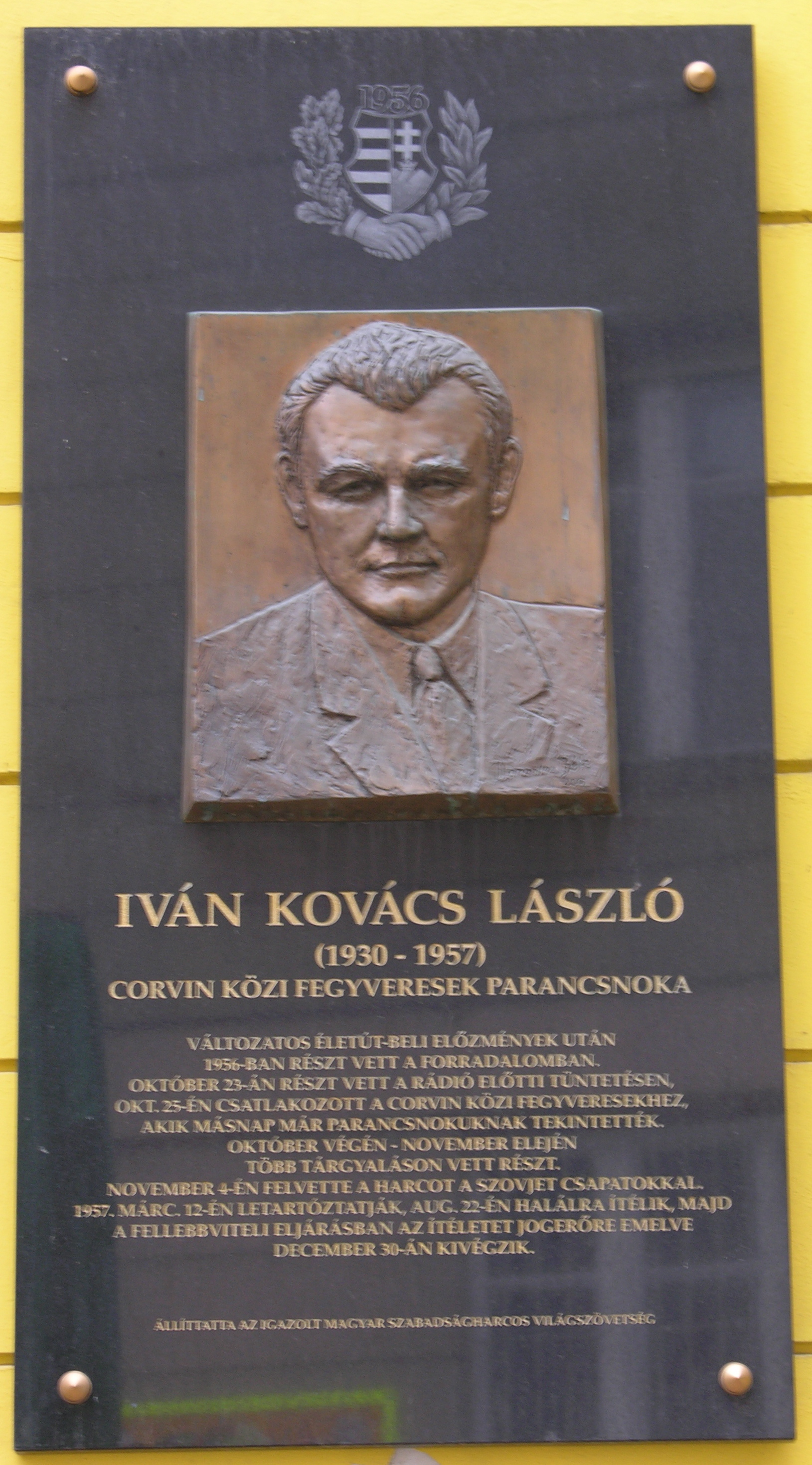 Commemorative plaque of László Iván Kovács in Budapest District VIII, Corvin Passage No 1 (Corvin Movie Palace)